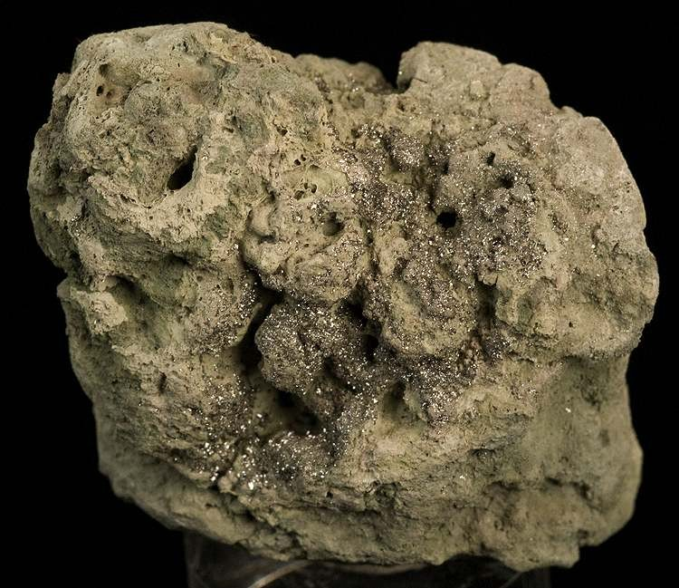 Rheniite Locality: Kudriavy (Kudryavyi) volcano, Iturup Island, Kuril Islands, Sakhalinskaya Oblast', Far-Eastern Region, Russia (Locality at ) Size: 3.9 x 3.7 x 3.3 cm. Rheniite is the only known mineral with Rhenium as its primary metallic constituent and as such is a fascinating species. It occurs at a volcanic vent in this remote area of Russia, and scientists have to climb down into hot crevasses to find the stuff. This is a really rich specimen with lots of silvery bright microcrystalline rheniite filling the 3-dimensional vug.